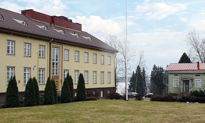 Karkun kotitalous- ja sosiaalialan oppilaitoksen päärakennus